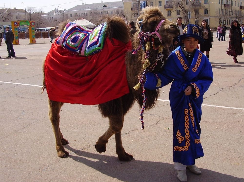 The Kazakh boy with a small camel. Celebrating of Nowruz. The city of Baikonur in Kazakhstan.